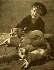 Child actor Ben Alexander and puppies, on page 1774 of the March 29, 1919 Moving Picture World.